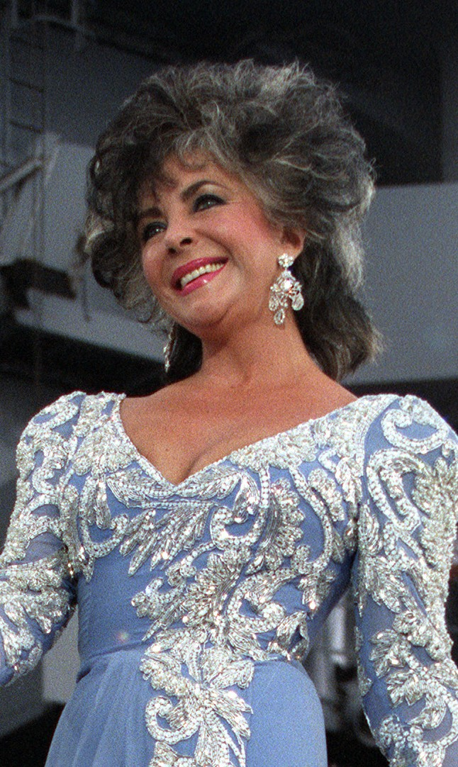 Elizabeth Taylor performing (together with Bob Hope) in a United Service Organization (USO) show aboard the training aircraft carrier USS Lexington (AVT 16) stationed at Naval Air Station, Pensacola during the celebration of the 75th anniversary of naval aviation.